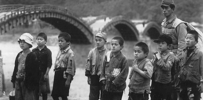 A scene from Hachi no su no kodomotachi (蜂の巣の子供たち) directed by Hiroshi Shimizu with non-professional actors - 1948